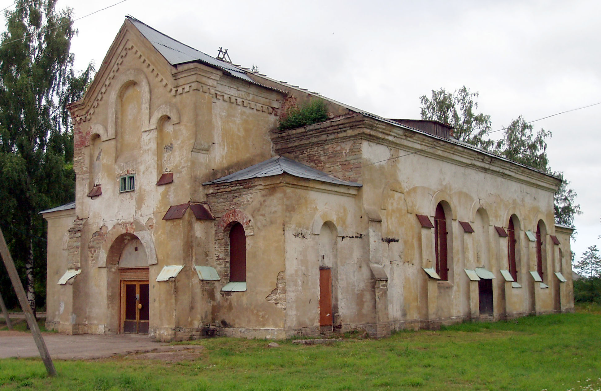 Lutheran church in Bolsjoje Kuzemkino in Kingiseppskij rajon in Leningradskaja oblast, Russia